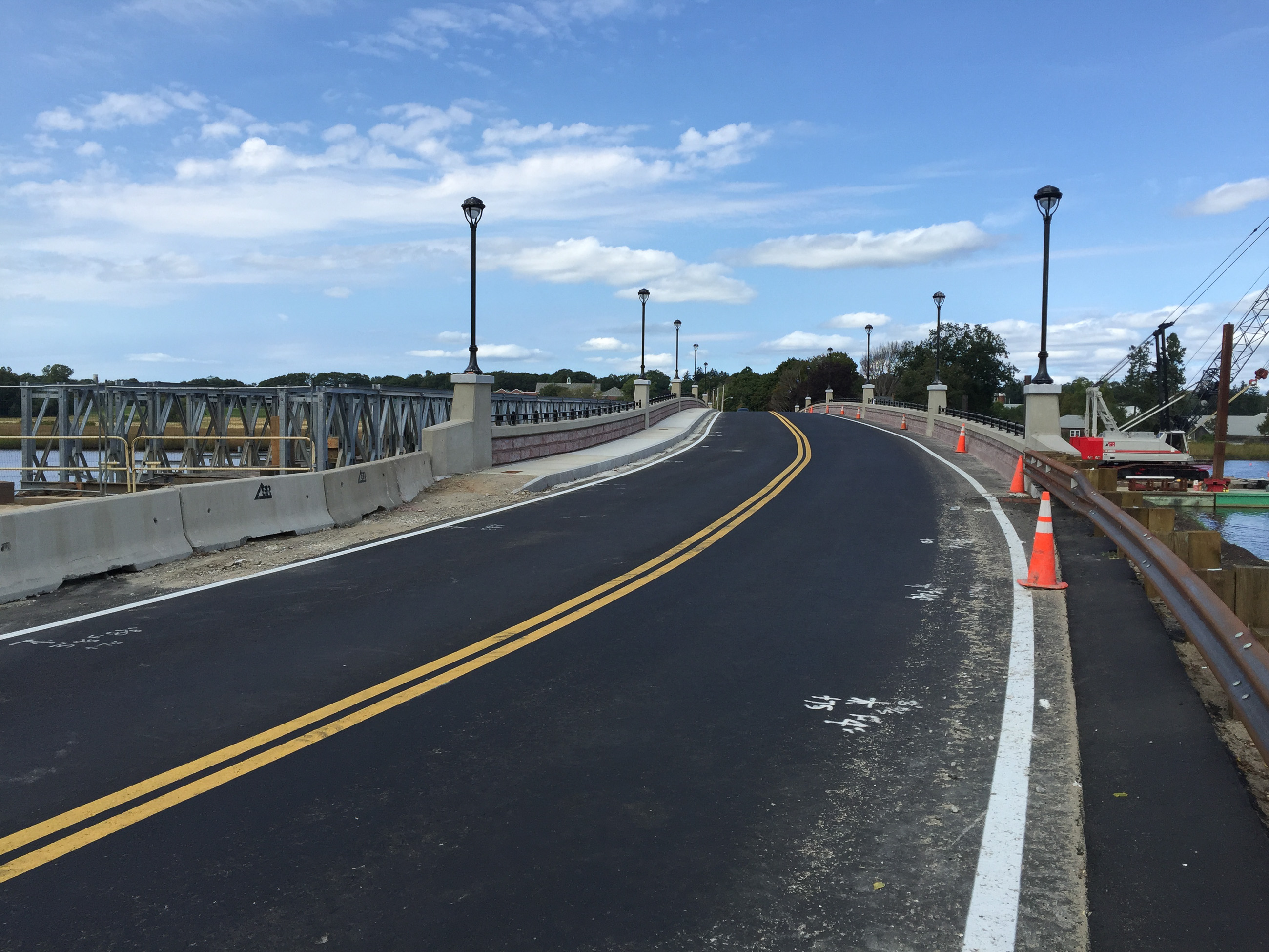 Berkley-Dighton Bridge East portal (looking West). Note pedestrian sidewalk on south (left) side.